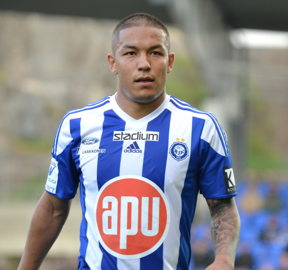 Football player Moshtagh "Mosa" Yaghoubi